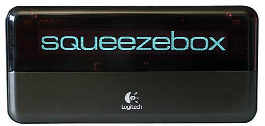 Photograph of a Slim Devices Squeezebox, Version 3